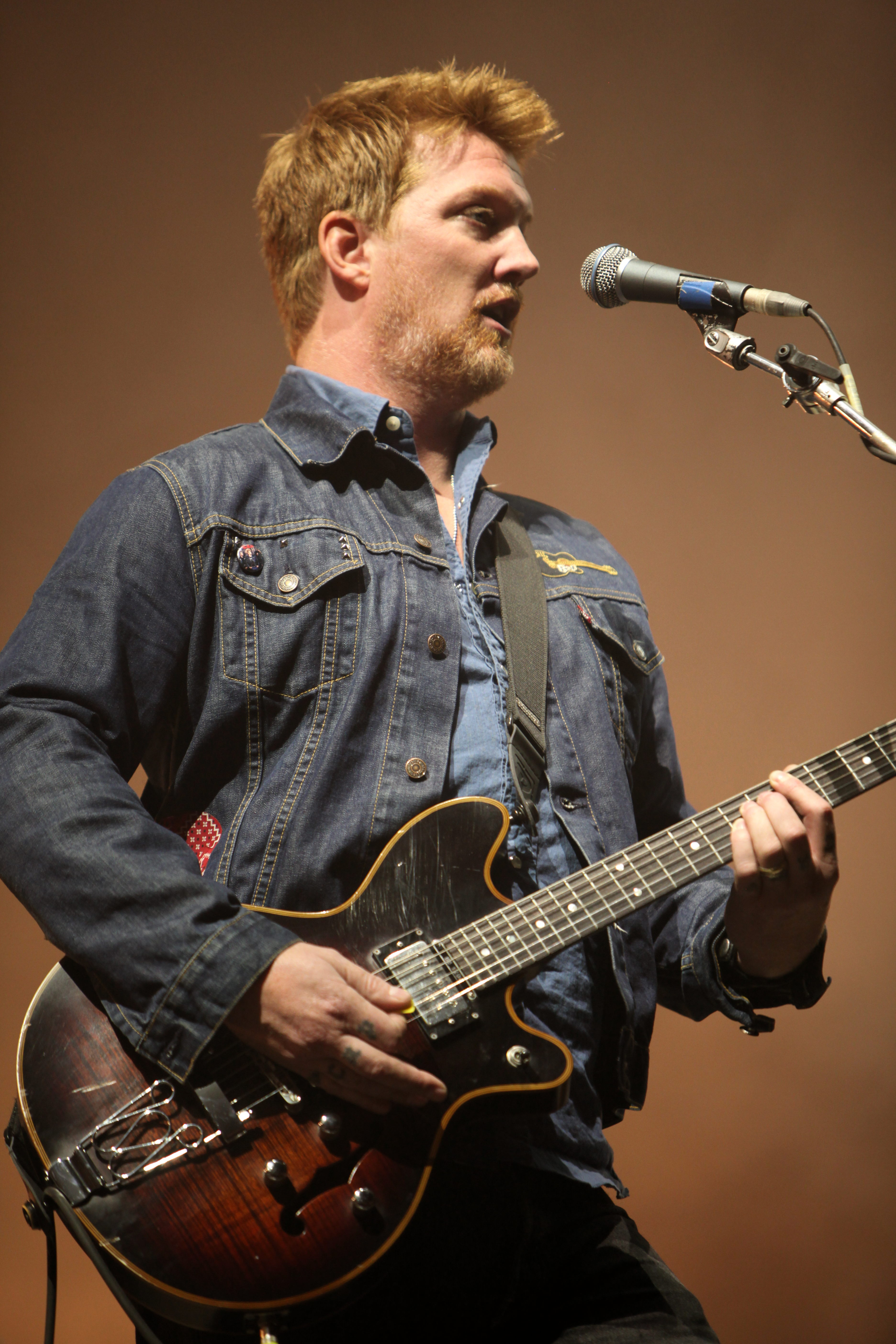 Josh Homme with Queens of the Stone Age at the Eurockéennes de Belfort 2011 The making of this document was supported by Wikimedia CH. (Submit your project!) For all the files concerned, please see the category Supported by Wikimedia CH.